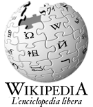 Logo of the Italian Wikipedia